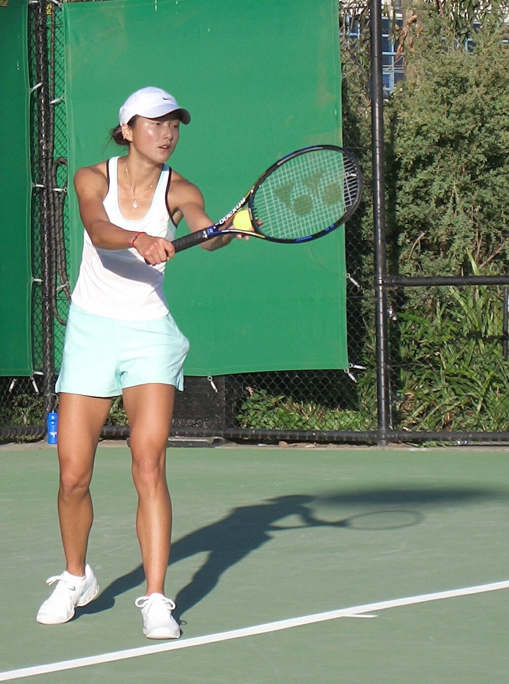 Yan Zi (晏紫) during her first-round match of the 2006 Australian Open against Natalie Dechy, whom she beat.